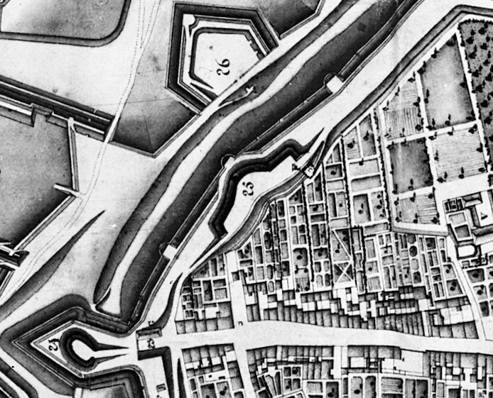 Maastricht, the Netherlands. Detail of a map showing the western part of the city in 1749. The map by French military engineer Jean-Baptiste Larcher d'Aubencourt was used to built the Maquette of Maastricht (1752), now in the Musée de Beaux Arts in Lille, France. Here the area around the cavalier Nassau between Brusselsepoort and Lindenkruispoort, where today Herbenusstraat runs.